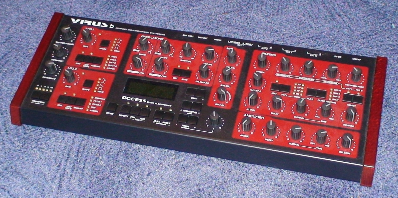 Synthesizer Virus Version B from Access Music Germany